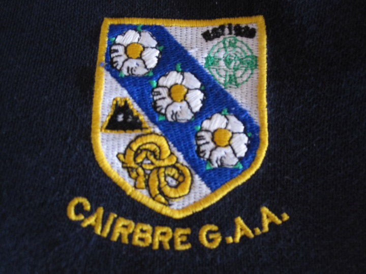 Stitched patch of the Carbury GAA (Gaelic Athletic Association) Club logo.